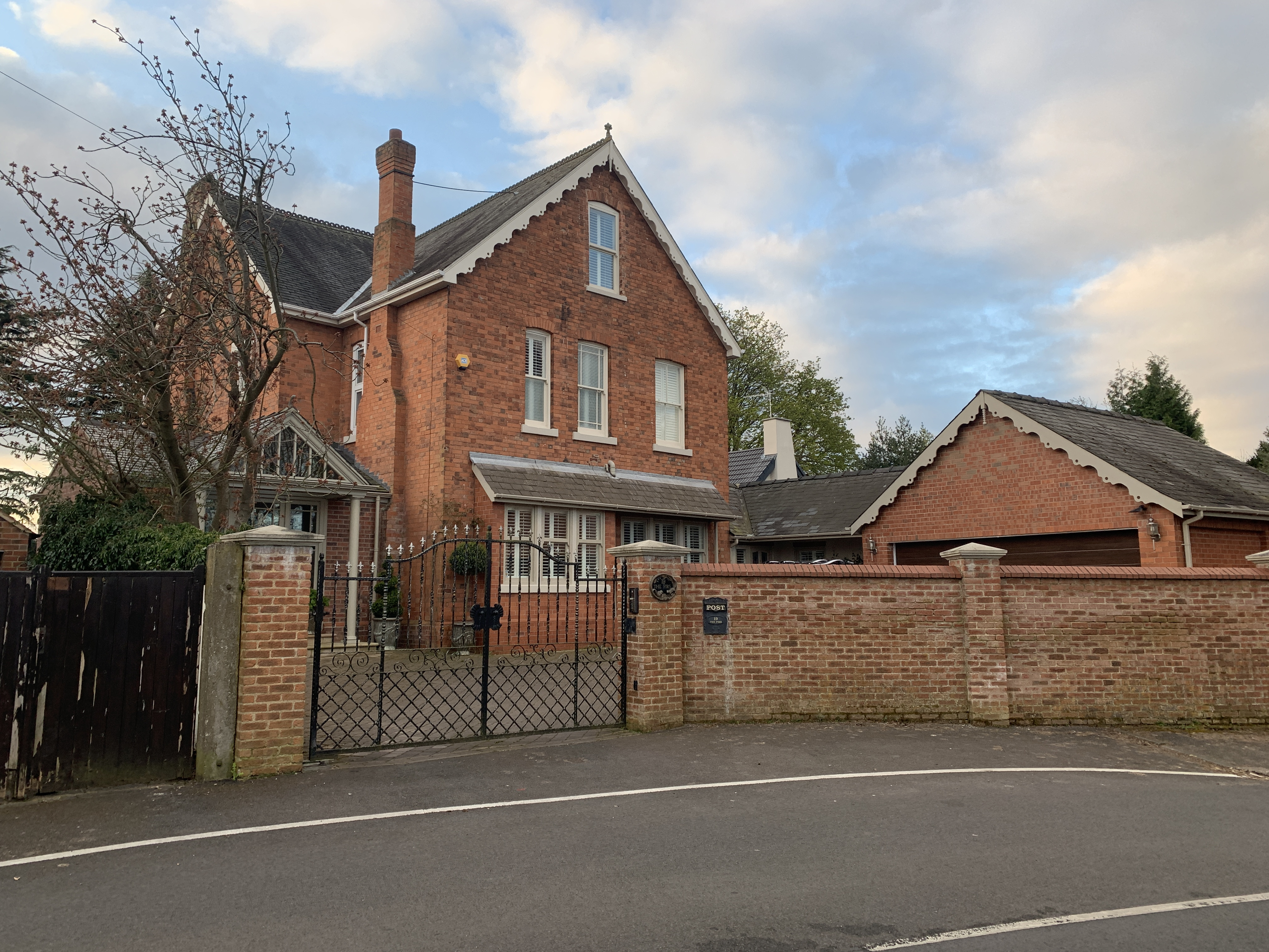 The Firs